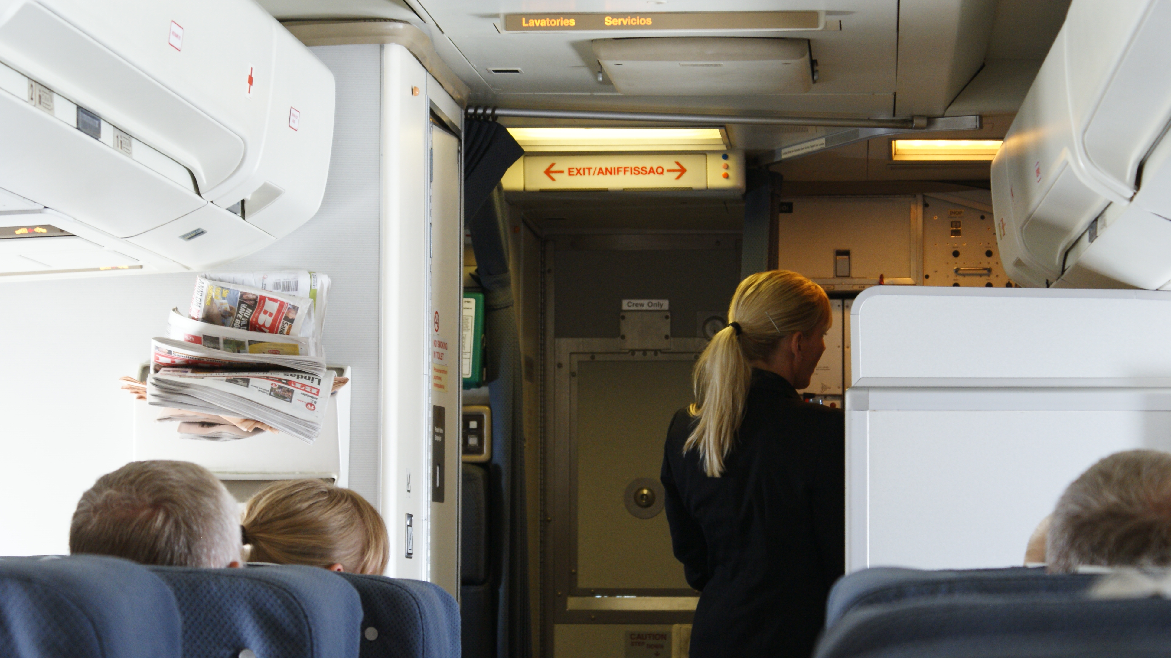 Air Greenland Boeing 757-200 "Kunuunguaq": cabin